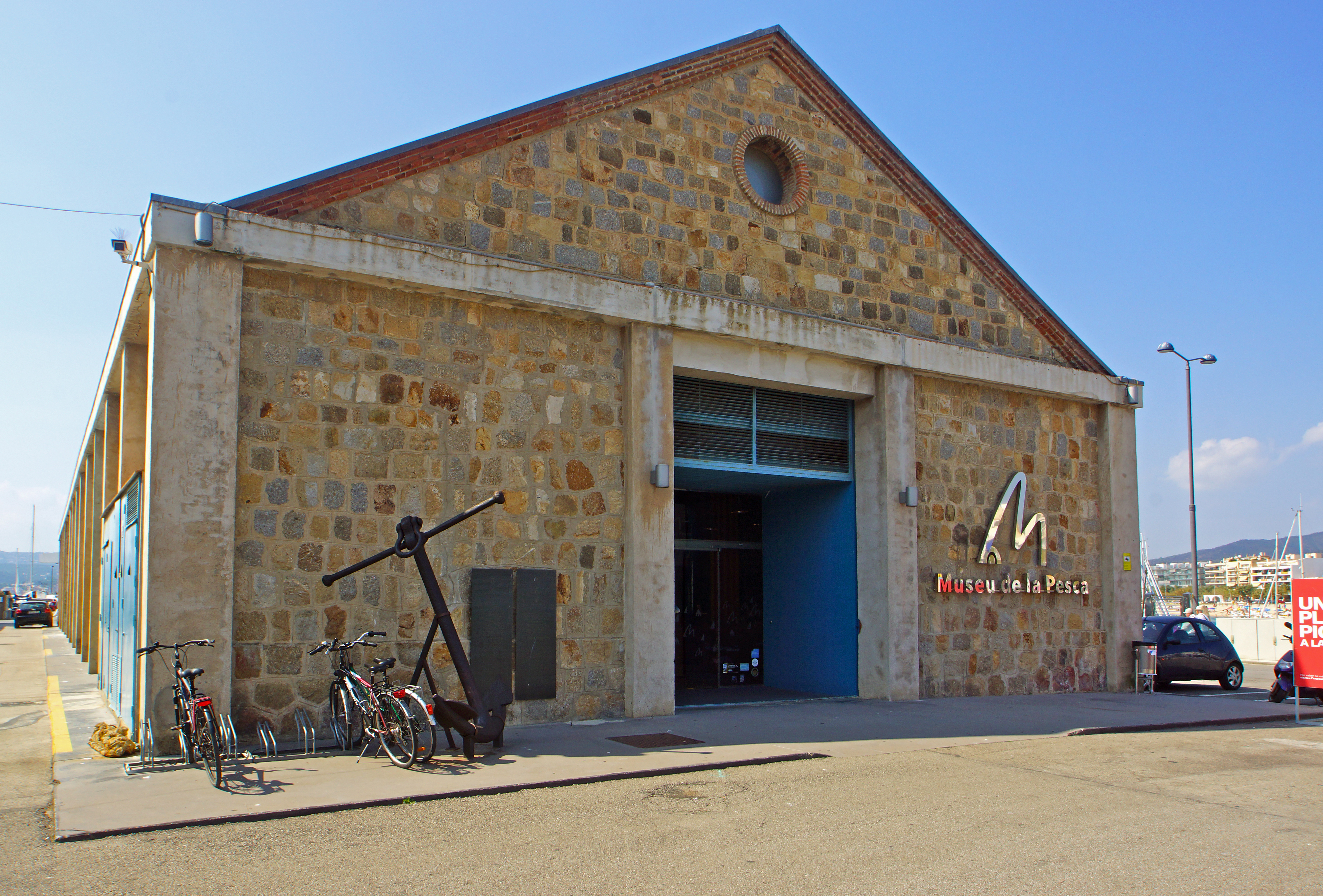 Palamós, Catalonia: Fishery Museum